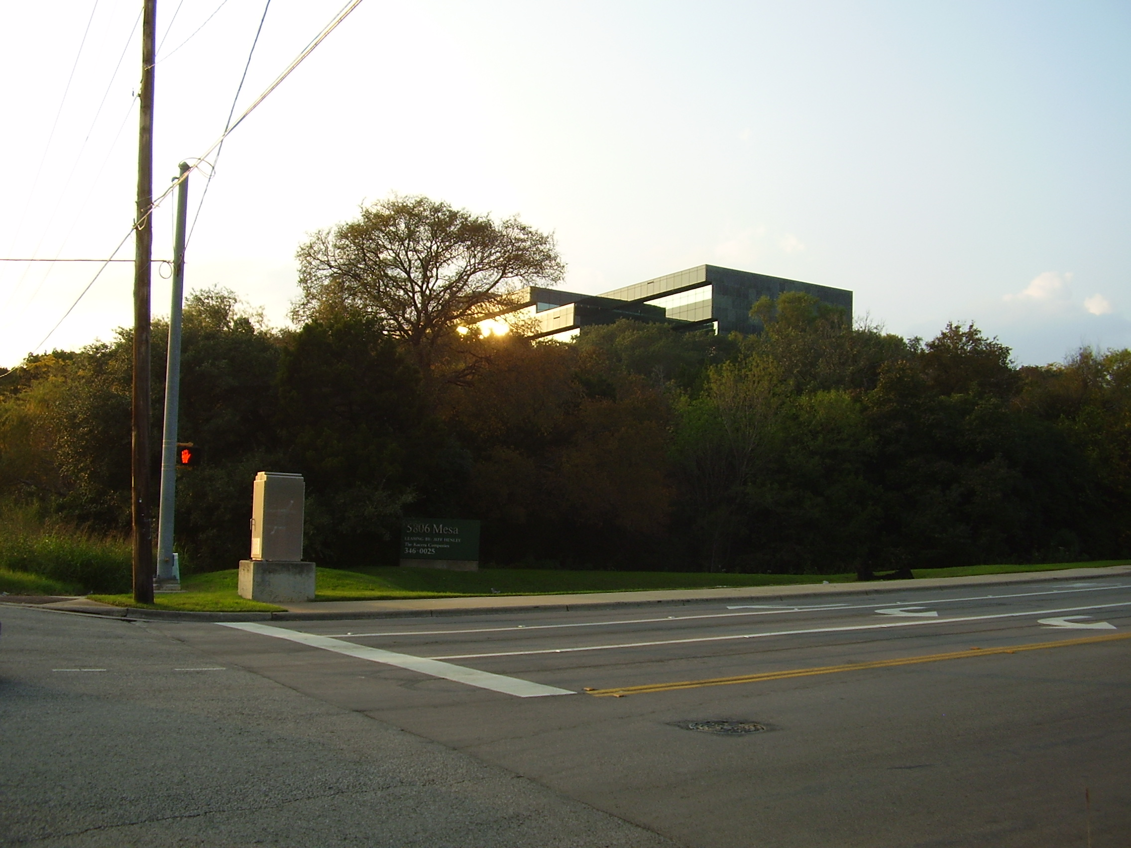 5806 Mesa Drive building - Includes the headquarters of the Texas Alcoholic Beverage Commission